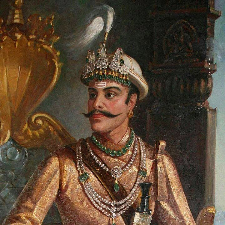 Rana Bahadur Shah, King of Nepal (Nepali: रण बहादुर शाह) (1775–1806) was the King of Nepal from 1777 to 1806.